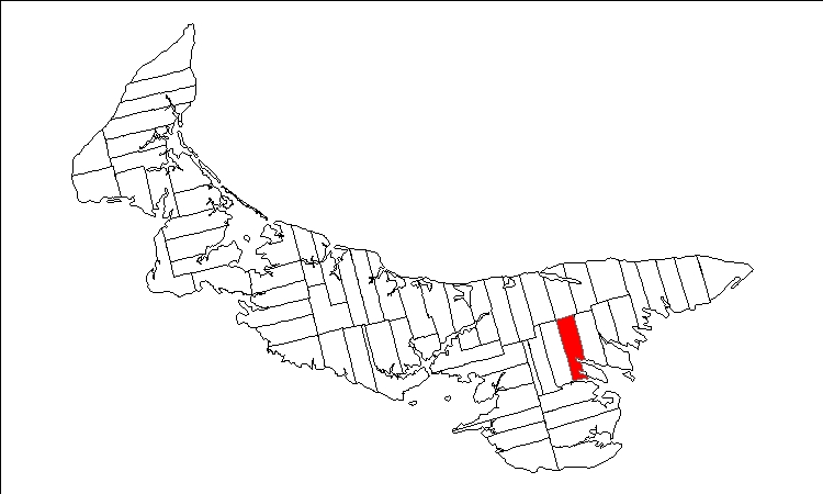 Public domain map of Prince Edward Island created by User:Plasma east with data courtesy of Geogratis, modified to show townships. Released under GFDL (self).